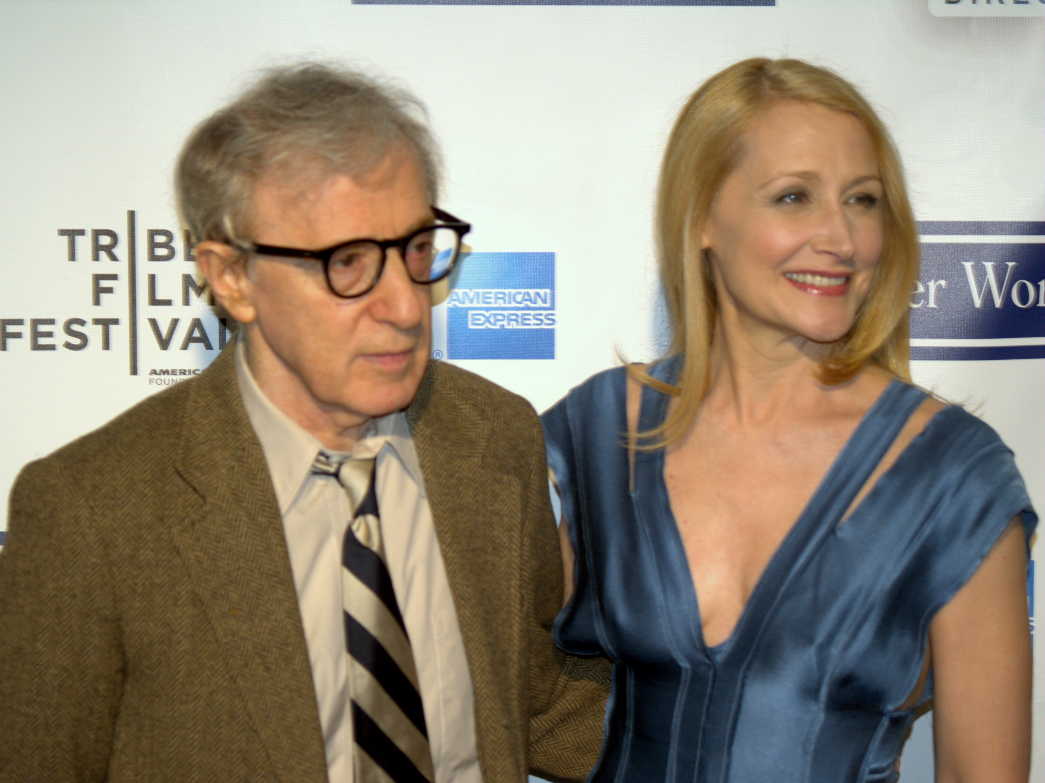 Woody Allen and Patricia Clarkson at the 2009 Tribeca Film Festival premiere of Whatever Works.